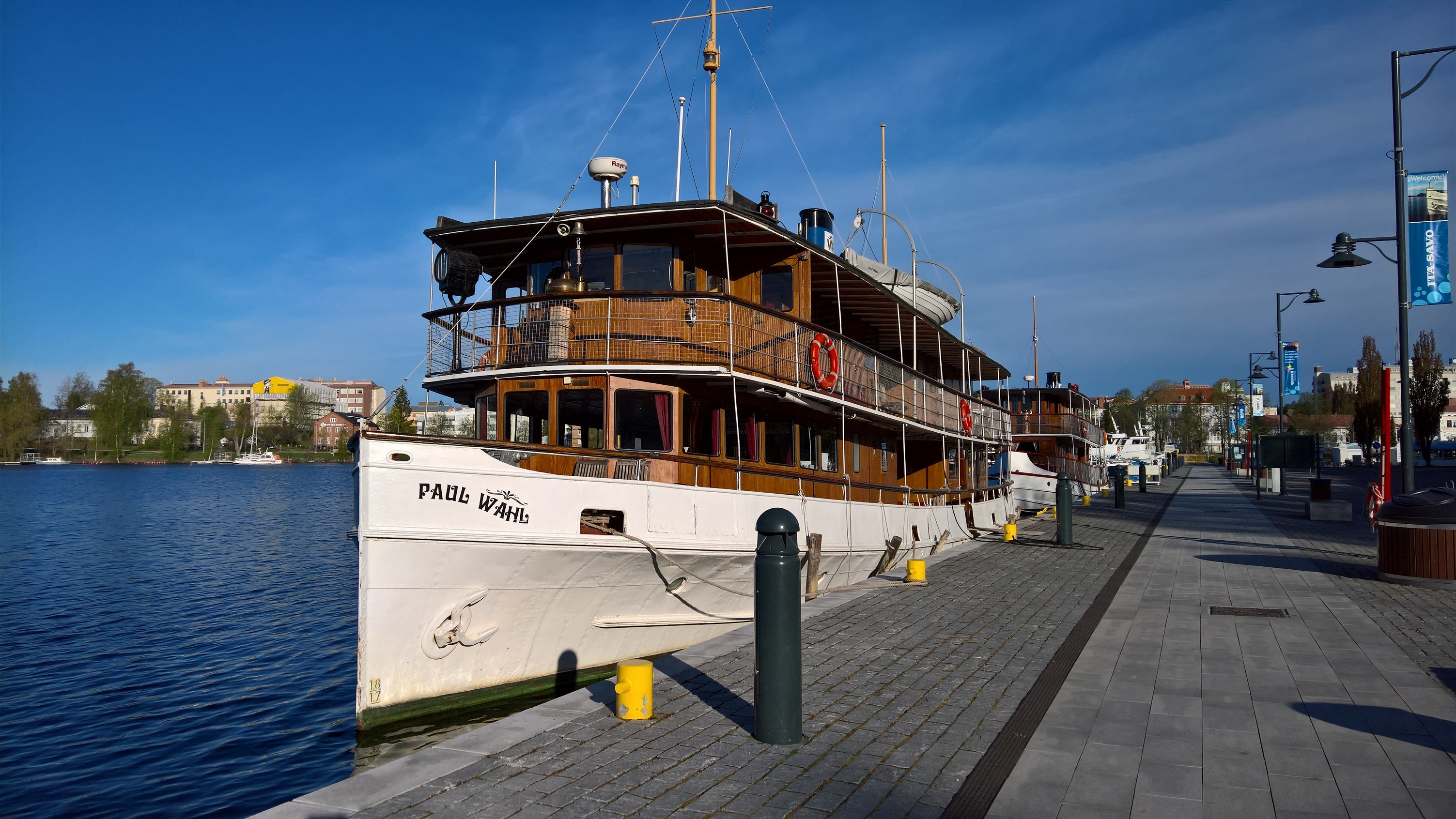 S/S Paul Wahl (Savonlinna harbour)